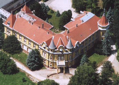 Mosdós, Hungary, aerialphotography (Pallavicini Mansion)